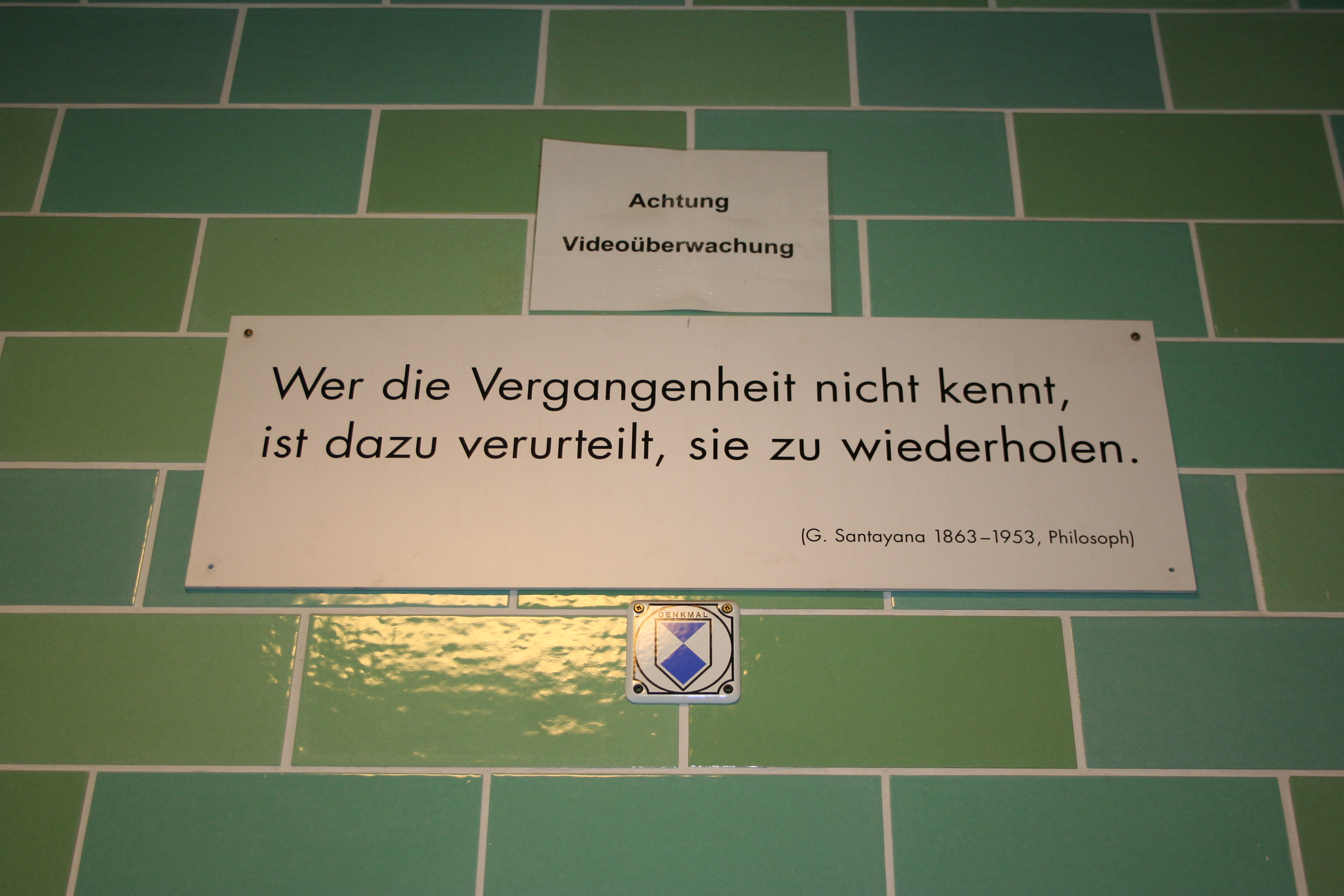 Plaque with quotation from George Santayana at the U-Bahn (subway) station Gesundbrunnen (Berlin). Translation: "Those who cannot remember the past are condemned to repeat it". The sign above the quotation warns of video surveillance. Translation: "Attention. Video surveillance". The sign below the quotation shows that the U-Bahn Station is a building of historic importance which is subject to a preservation order. Denkmal means literally memorial or monument